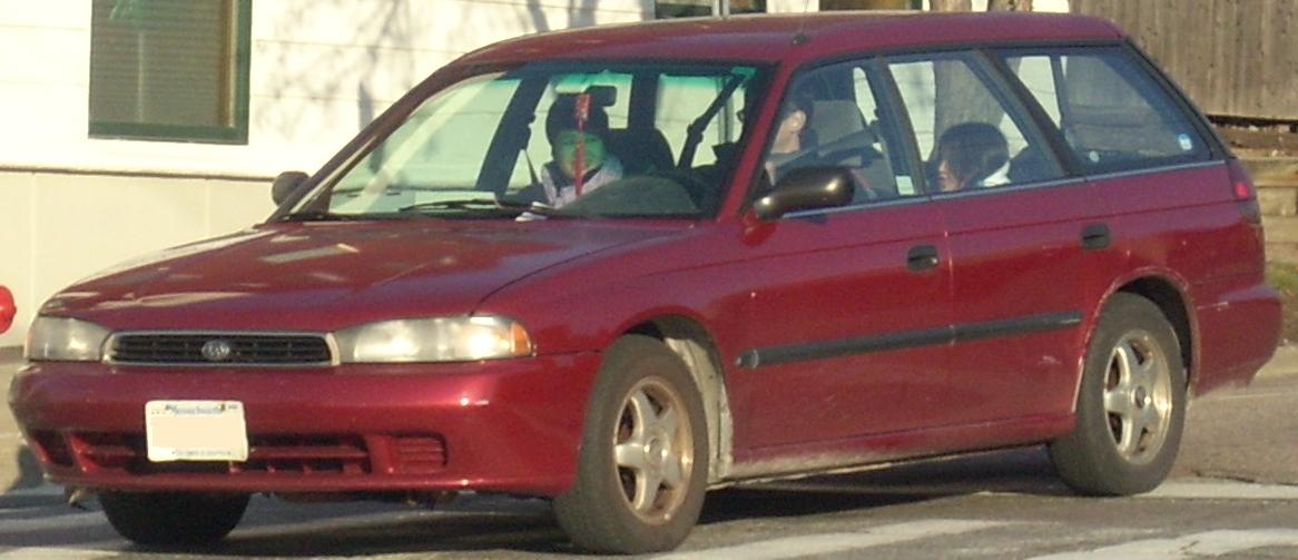 1995-1996 Subaru Legacy Wagon photographed in Burlington, VT, USA.